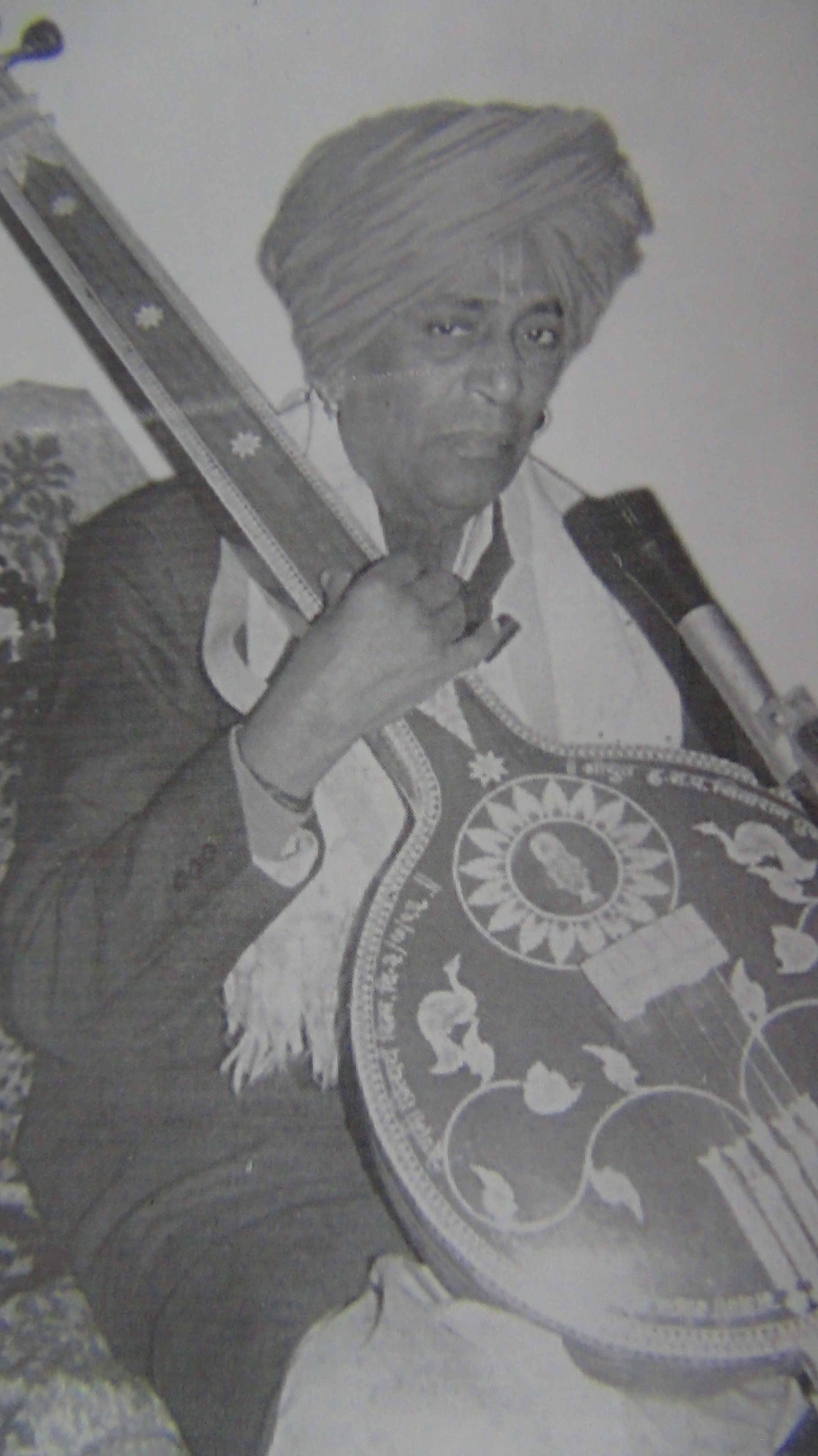 Bhimsingh Maharaj was a Varkari and Hindu saint from Maharashtra